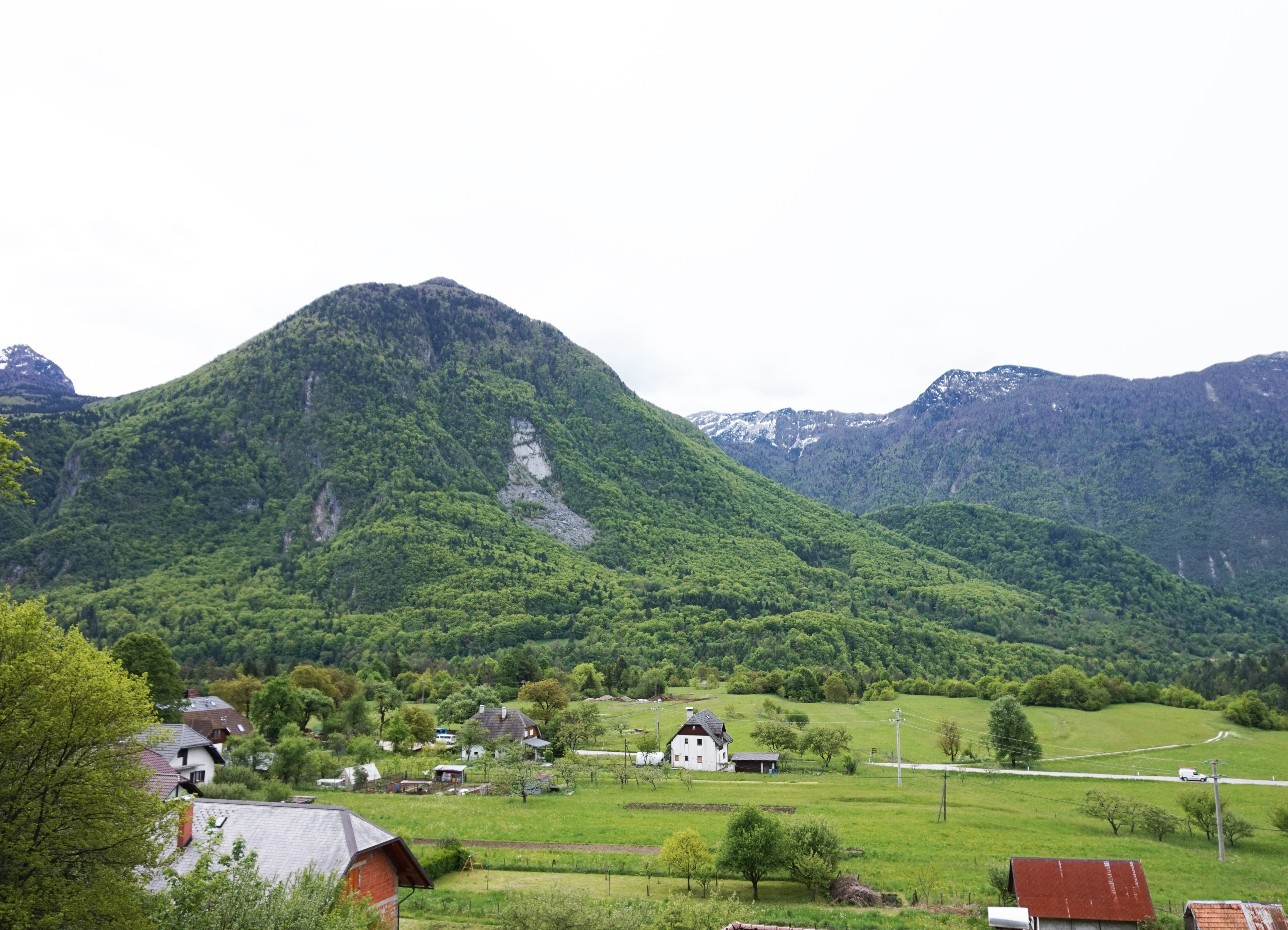 Kal - Koritnica, Slovenia.This photograph was taken with a Sony ILCE-5000